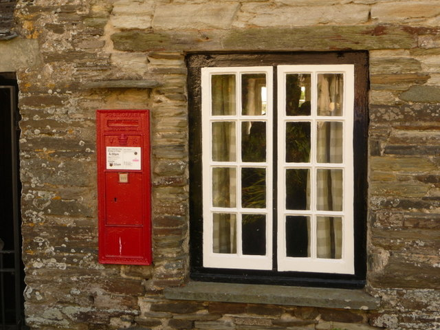 Post box № PL34 1 in the wall of 1466525. It was made in 1857 or 1858 for the Western District of the General Post Office. Its final daily collection is at 4 pm on weekdays and at 10:15 am on Saturdays.